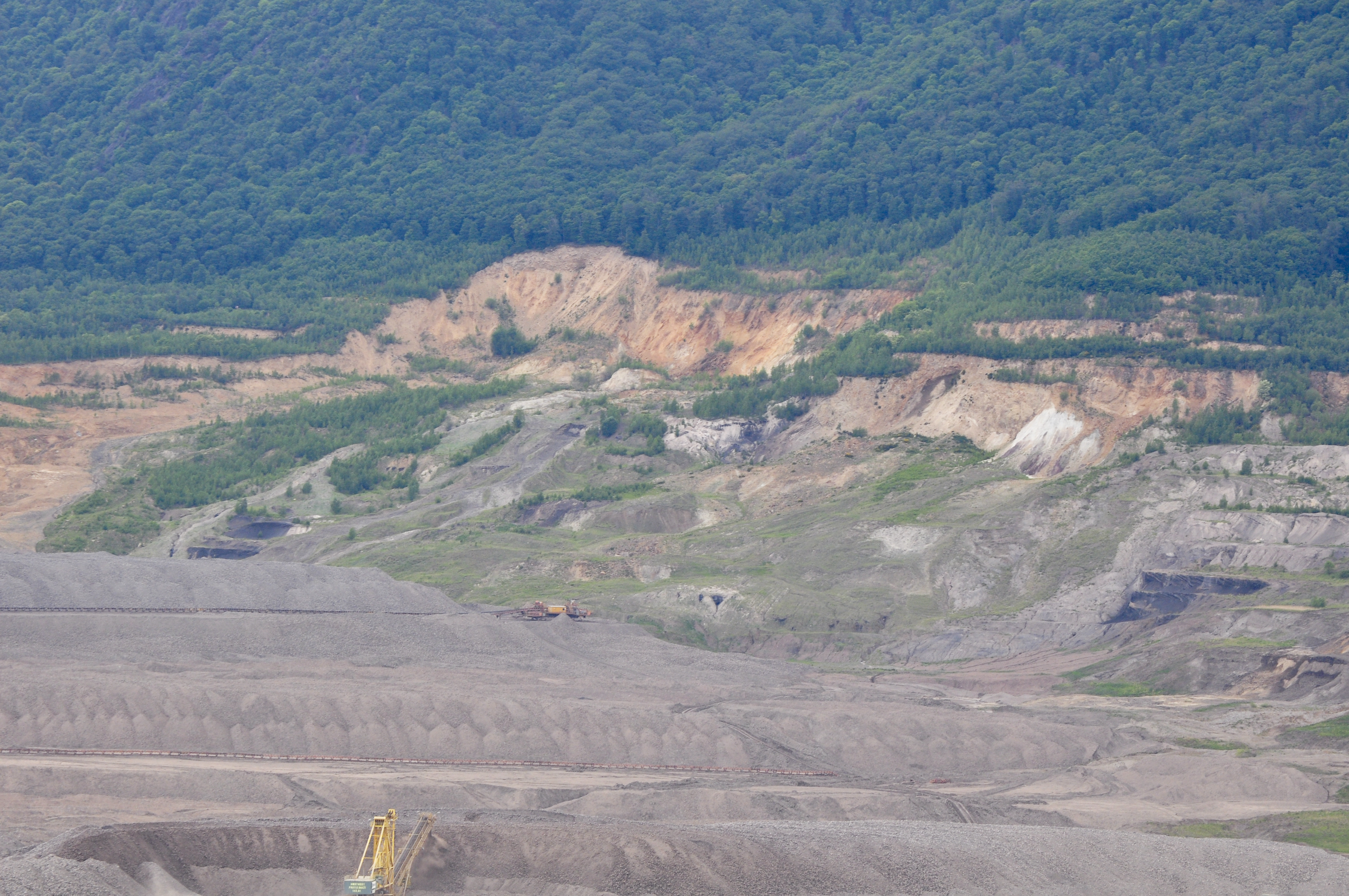 Landslide at the Lom ČSA